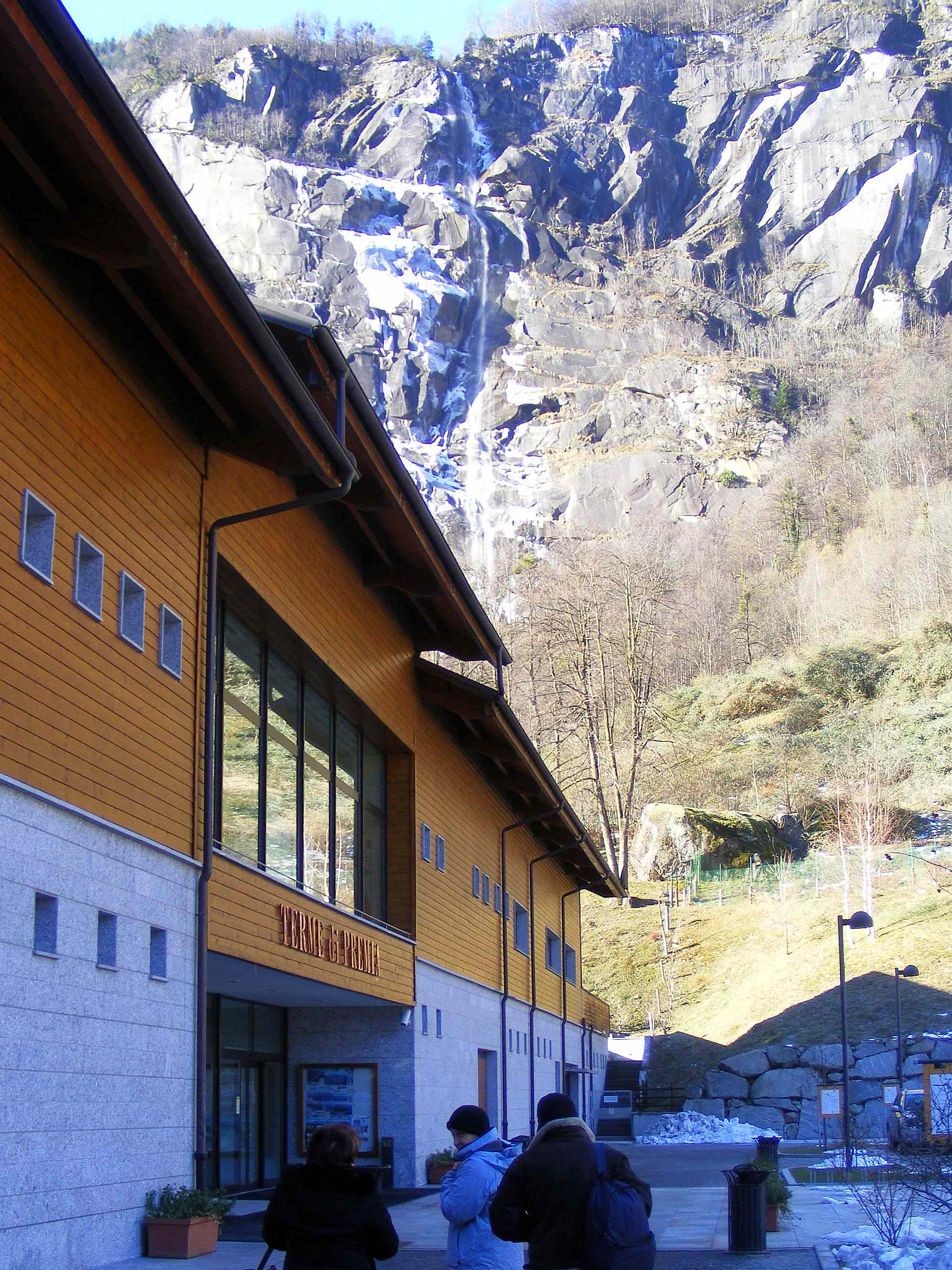 Premia (VB, Italy): waterfall and thermal baths entrance